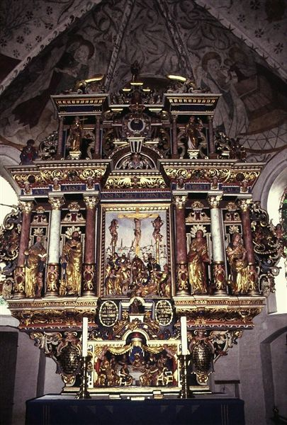 Vordingborg Vor Frue Kirke (church) in Denmark. Altar by Abel Schrøder from 1640.